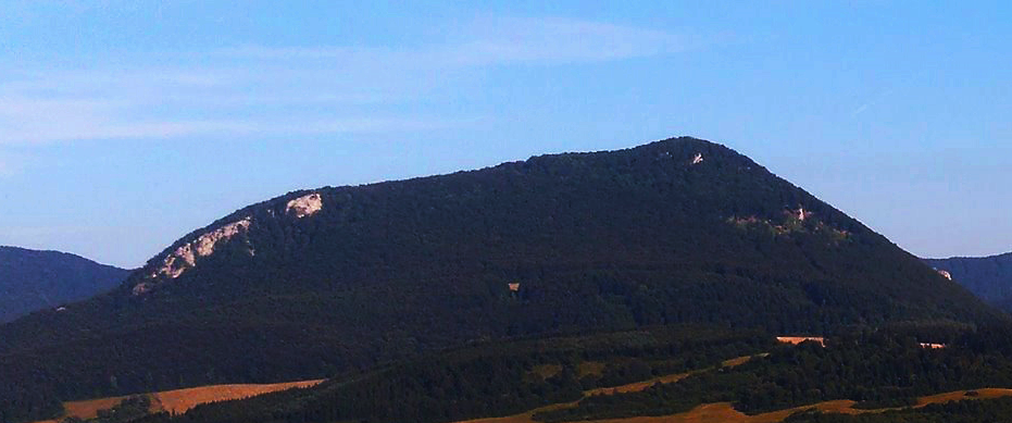 Malý Manín from West